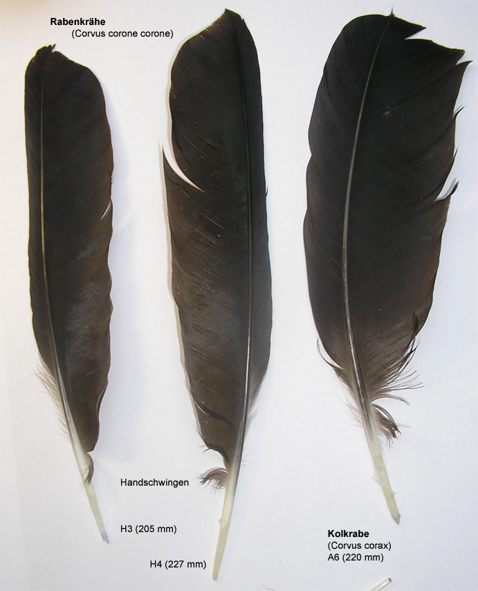 Nearby primaries of a Carrion Crow (Corvus corone), secondary of a Raven (Corvus corax)